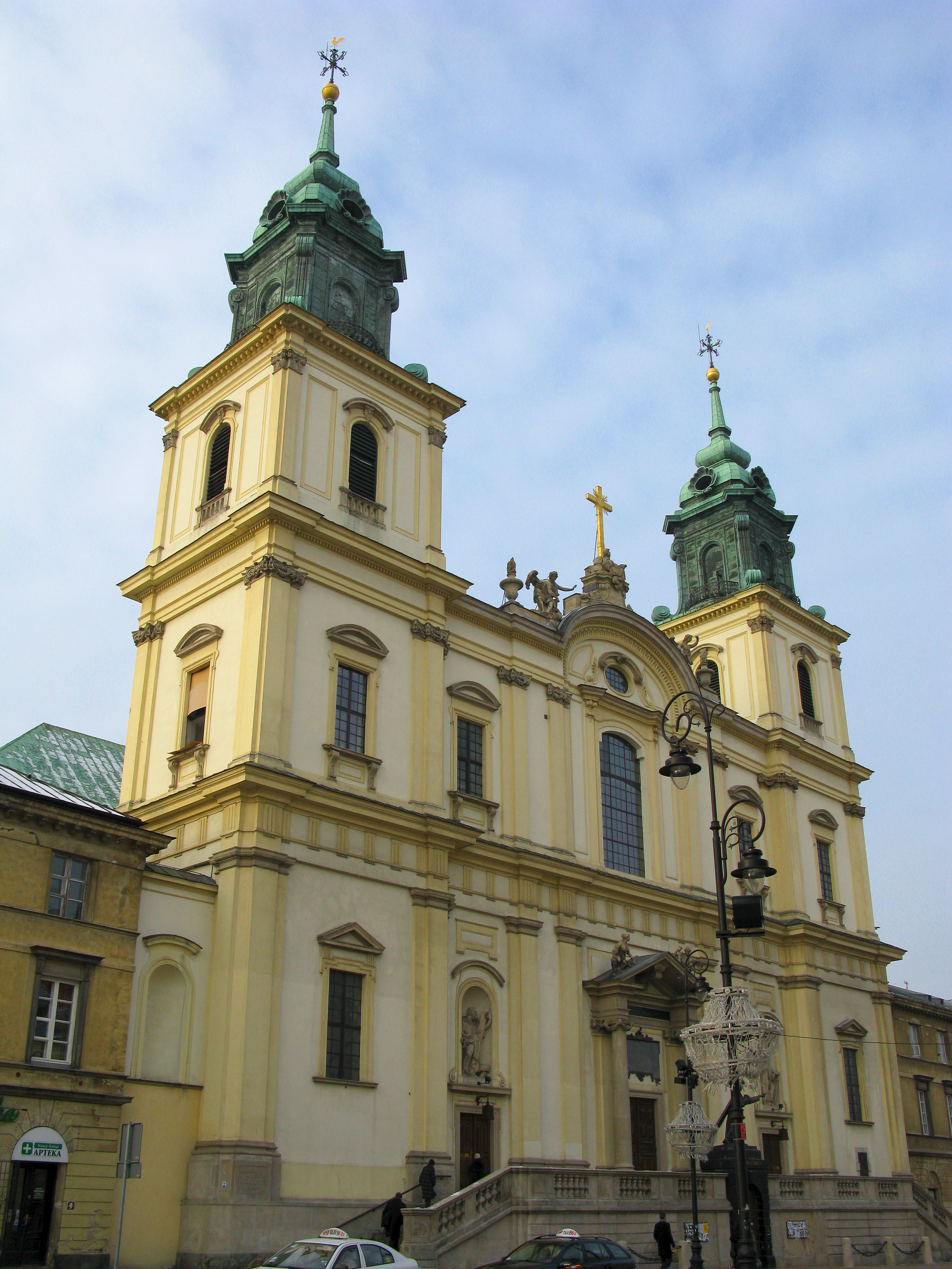 Church of Holy Cross in Warsaw